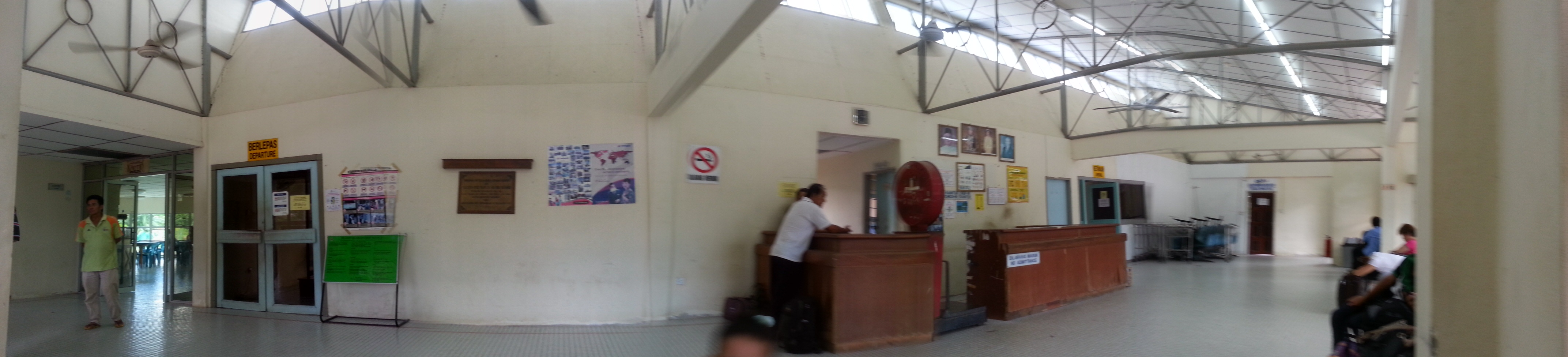 Air port